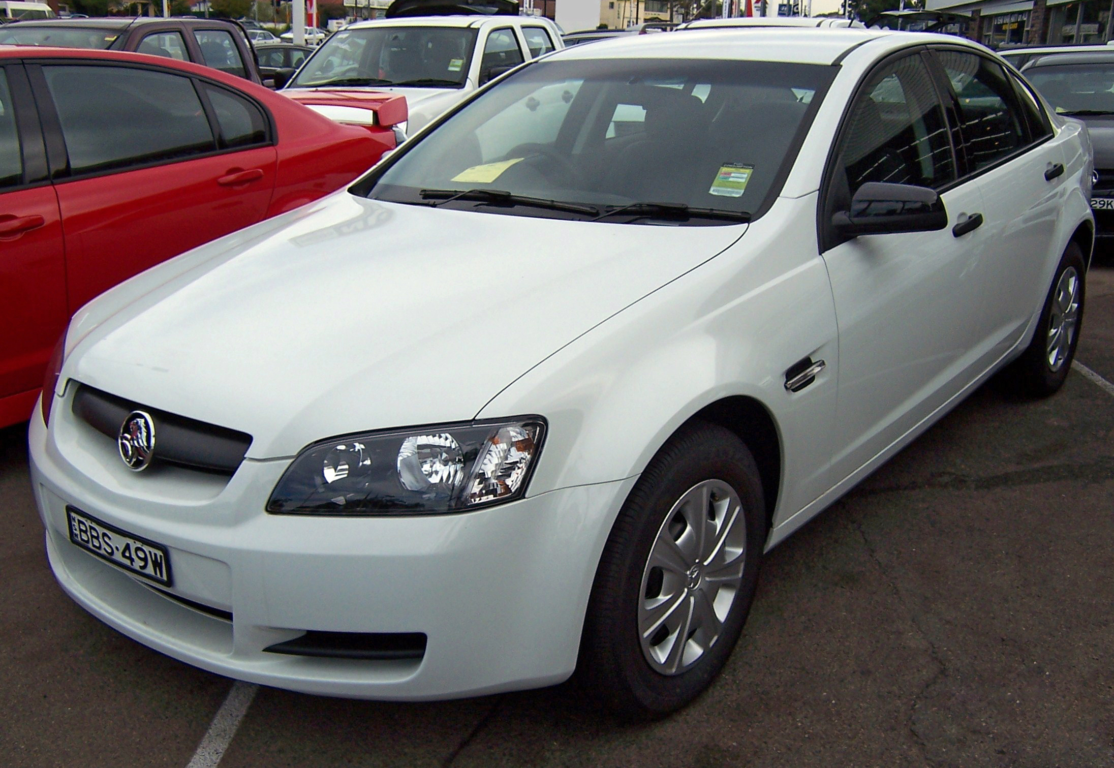 2007 Holden Commodore (VE) Omega sedan. Photographed at McGrath Sutherland Holden, Kirrawee, New South Wales, Australia.